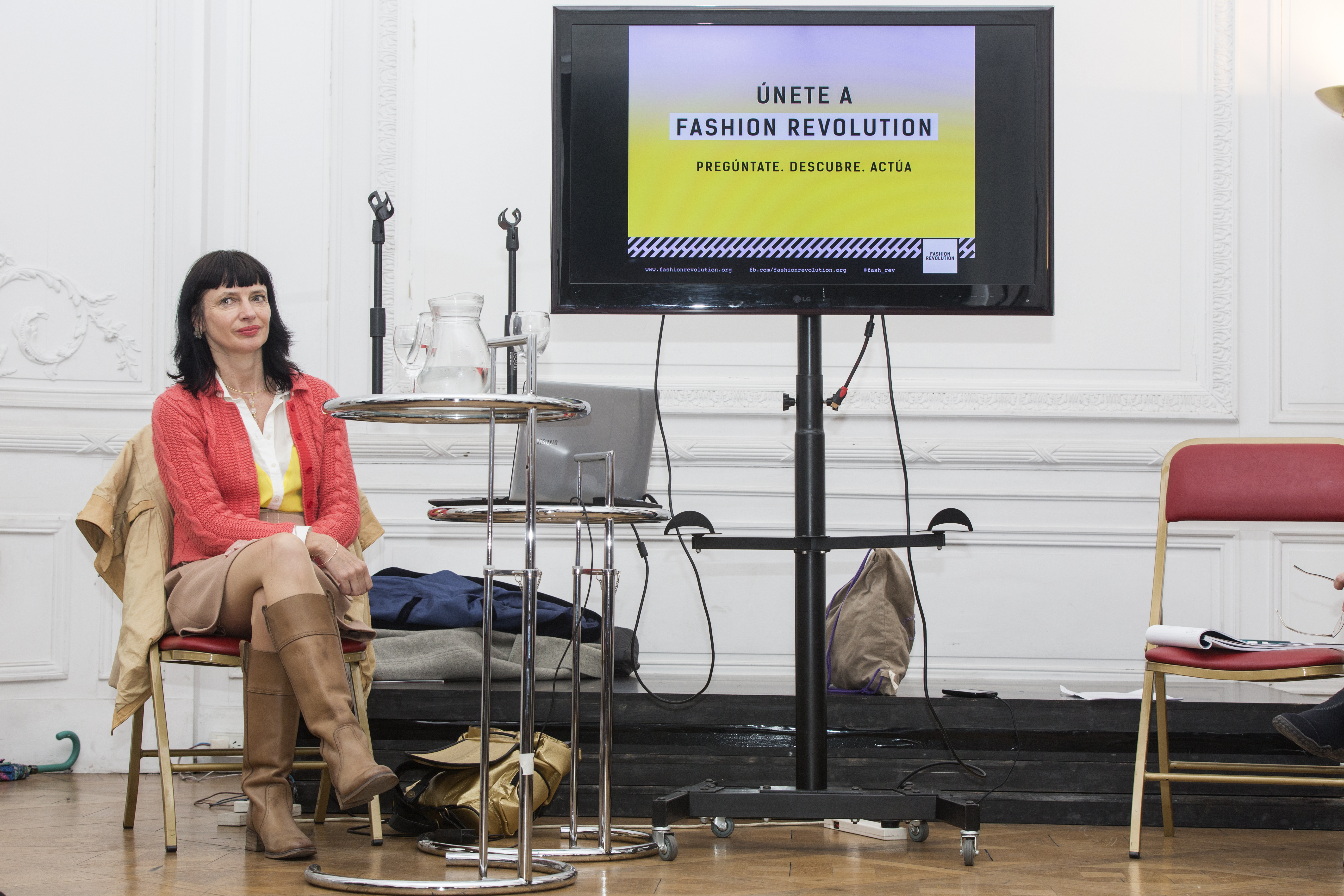 Buenos aires, 15 de Junio de 2017.- Diálogos de intercambio para avanzar hacia una moda más sustentable y construir cadenas productivas transparentes, en la Casa Creativa del Sur Foto: Soledad Amarilla / Ministerio de cultura de la Nación